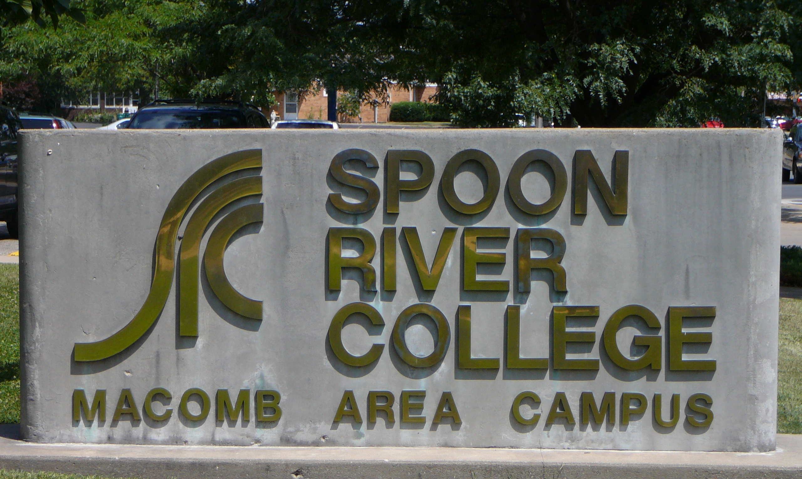 Picture of Spoon River College, Macomb Campus, Sign on Johnson Street near East side main entrance to building in Macomb, IL